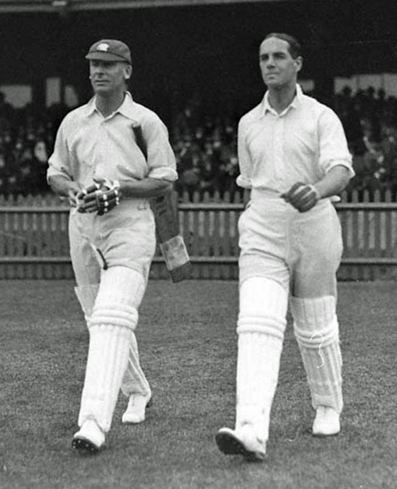 Jacks Hobbs and Herbert Sutcliffe, cropped from a larger team photograph.